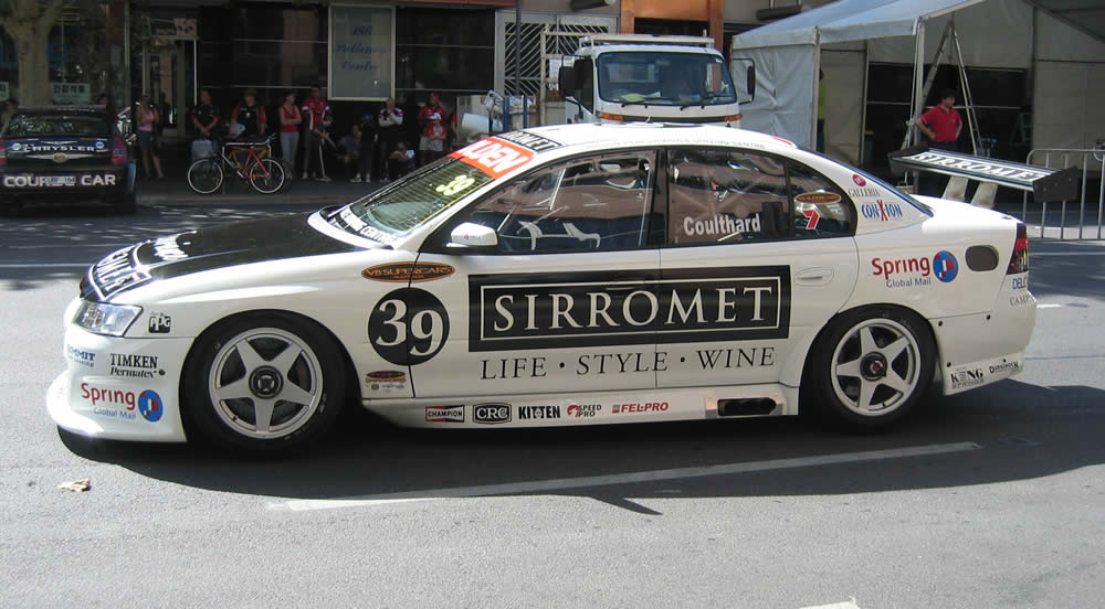 Sirromet's 2007 Livery Razzie954, the copyright holder of this work, hereby publishes it under the following license: Attribution: Razzie954